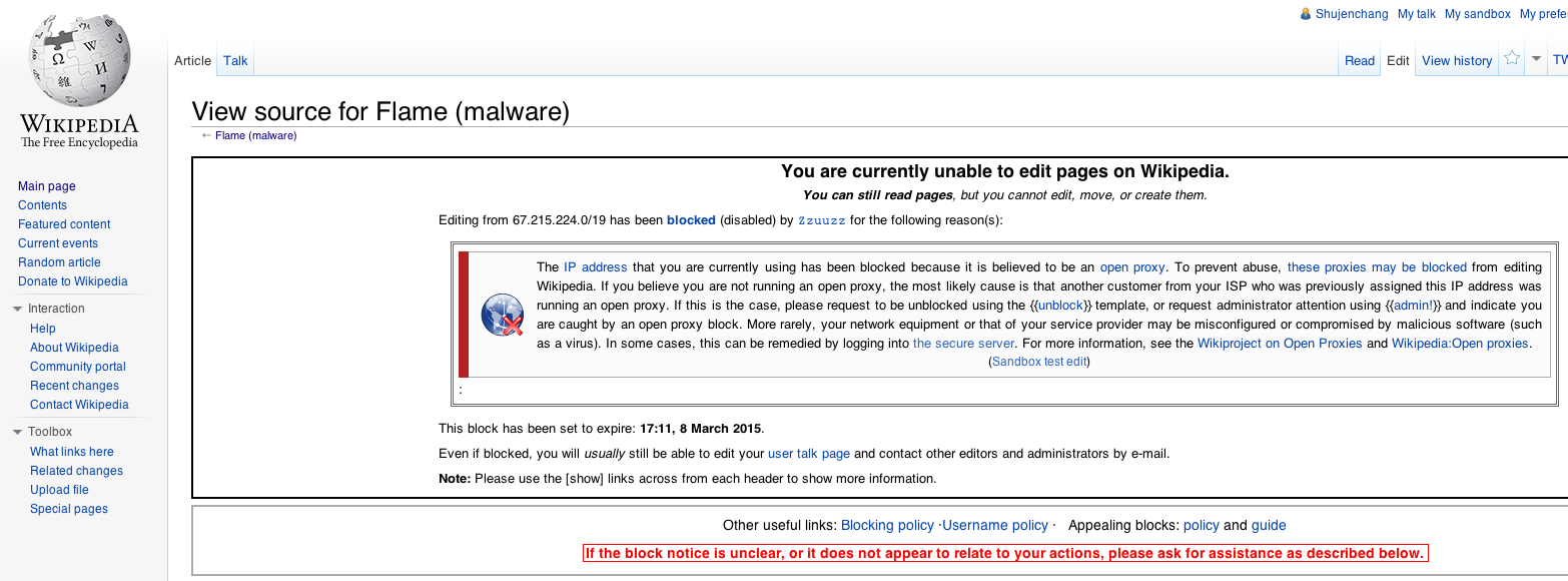 The evidence of the IP of my VPN is blocked by some Wikimedia Projects.